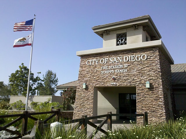 San Diego Fire Station 37 in Scripps Ranch